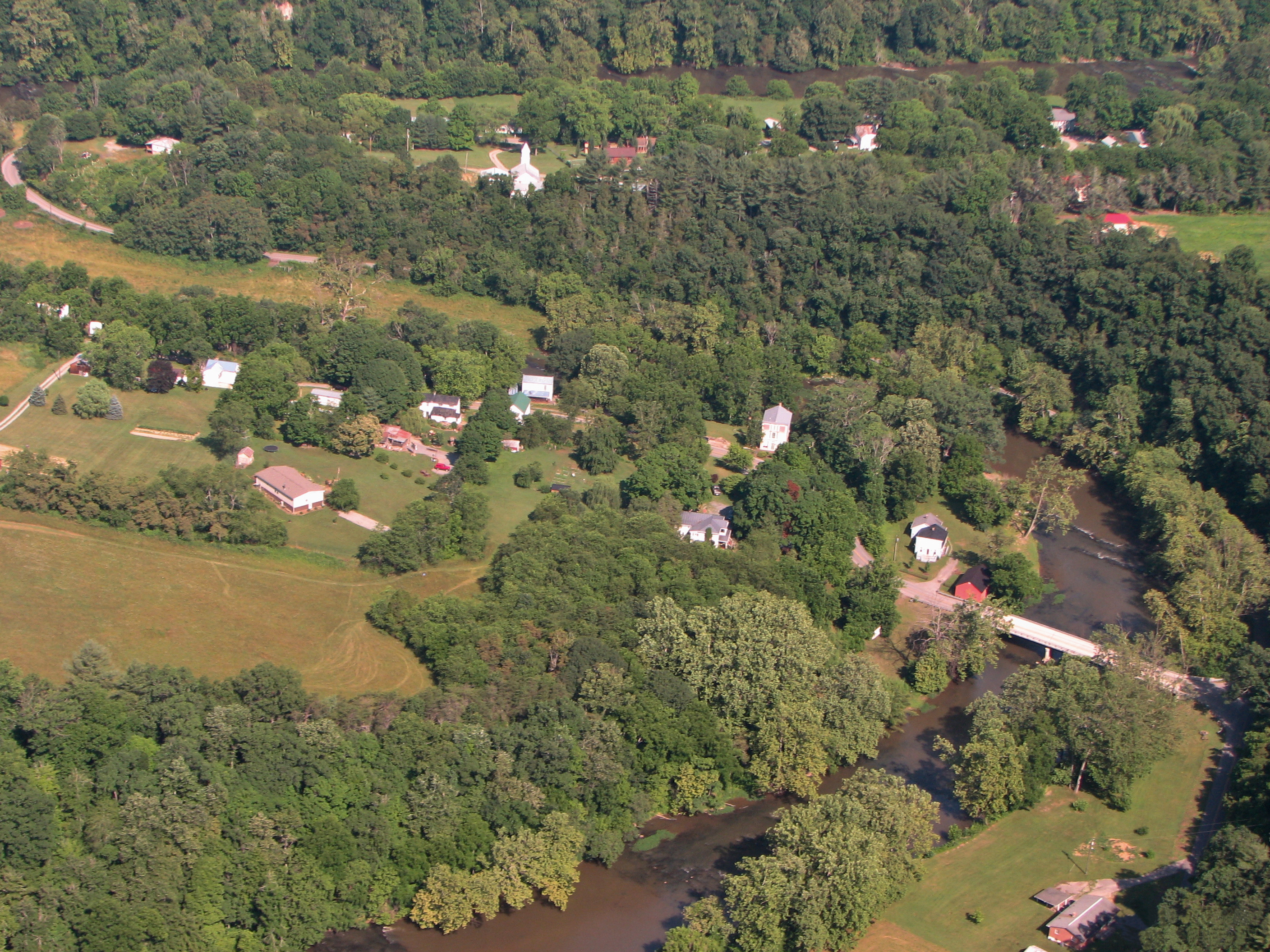 Aerial photo of Snowville, Virginia.